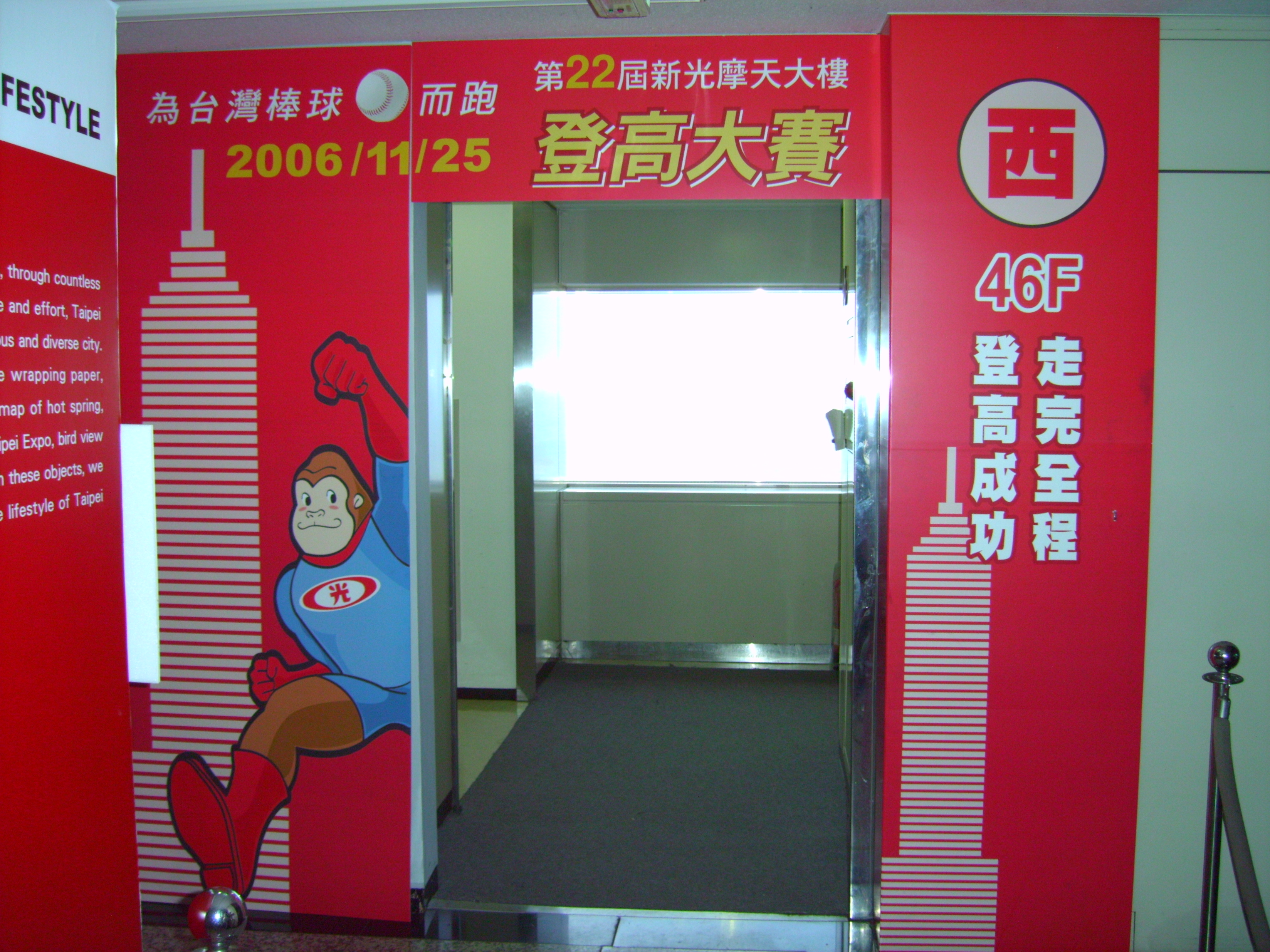 The Memorial Gate at floor 46 West side in the SKL Run Up.